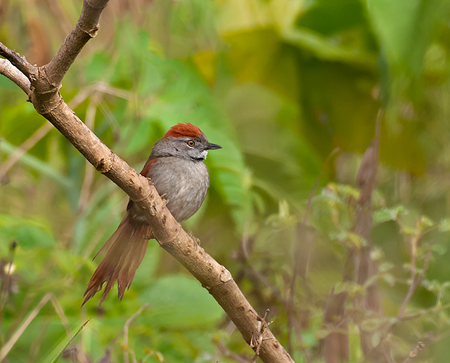 A Sooty-fronted Spinetail in Piraju, São Paulo, Brazil.